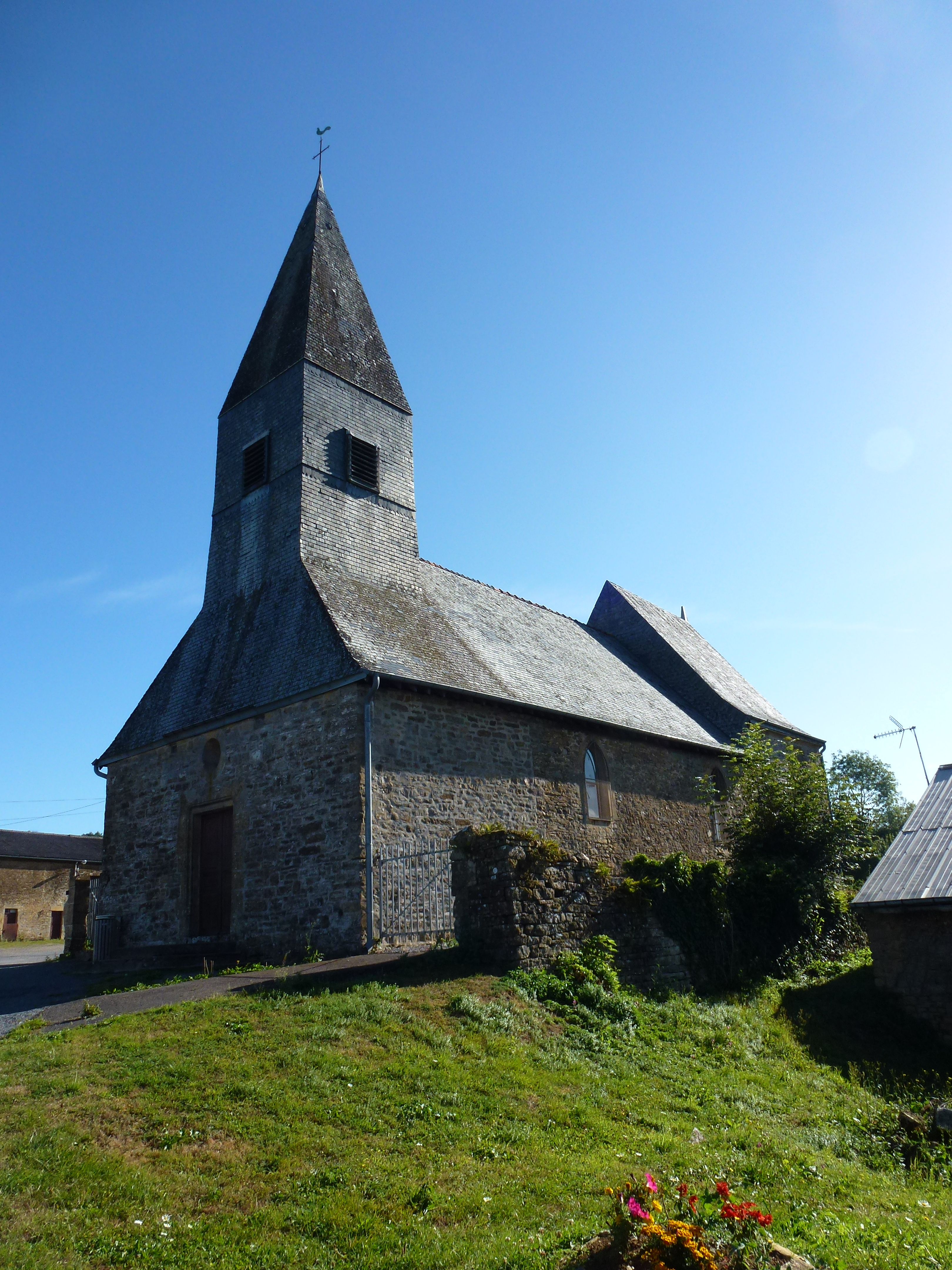 Murtin-et-Bogny (Ardennes) église de Bogny